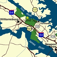 Picture map of location of Cheatham Annex